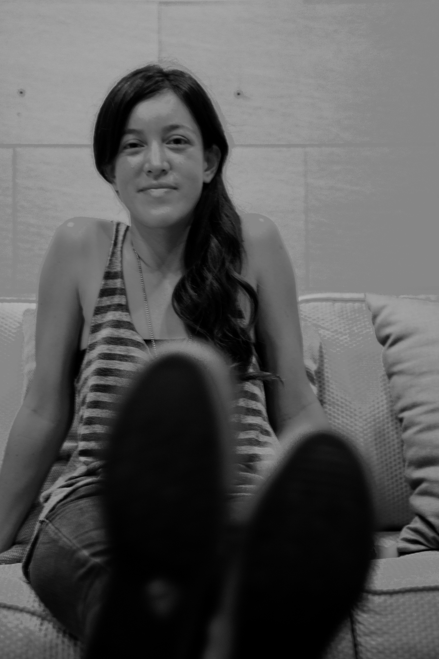 Tamara Benitez sitting at the main lobby of Brownsugar Productions in Makati City, Philippines.